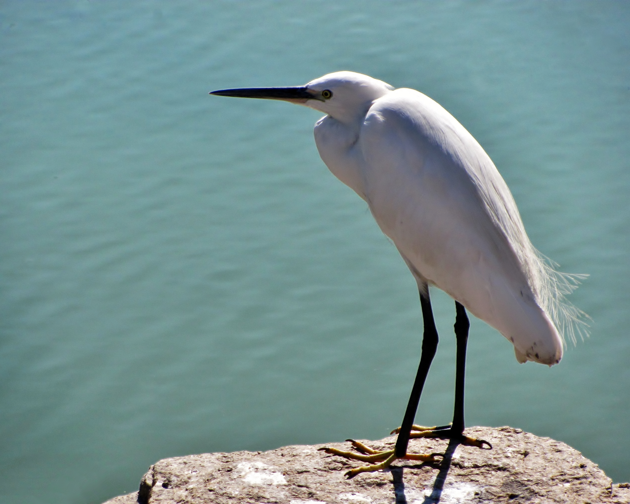 A Little Egret in breeding plumage at Gachi Bowli, Hyderabad, Andhra Pradesh, India.